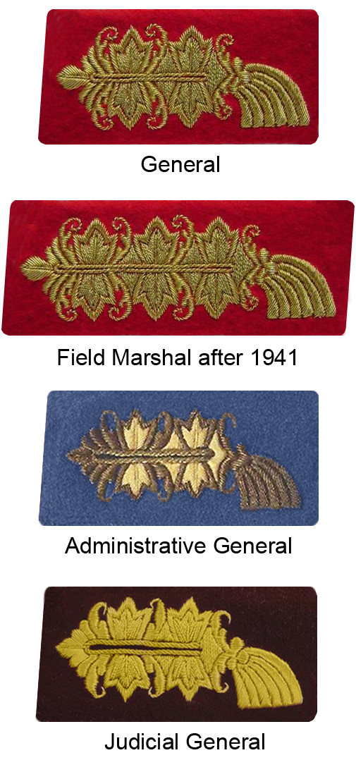 Rang insignia of the German Wehrmacht until1945, here “Arabesque collar patch” (also: Larish embroidery, Old Prussian embroidery, or Arabesquen embroidery), on the left gorget (top to bottom), depicting: General officers OF6 to OF9 and Generalfeldmarschall OF10 only until 1941, corps colour – deep red Generalfeldmaschall OF10, 1942 to 1945, corps colour – deep red General officers medical service/administarion OF6 to 8, corps colour – medical-blue General officers Reich’s court-martial OF6 und 7, corps colour – carmine